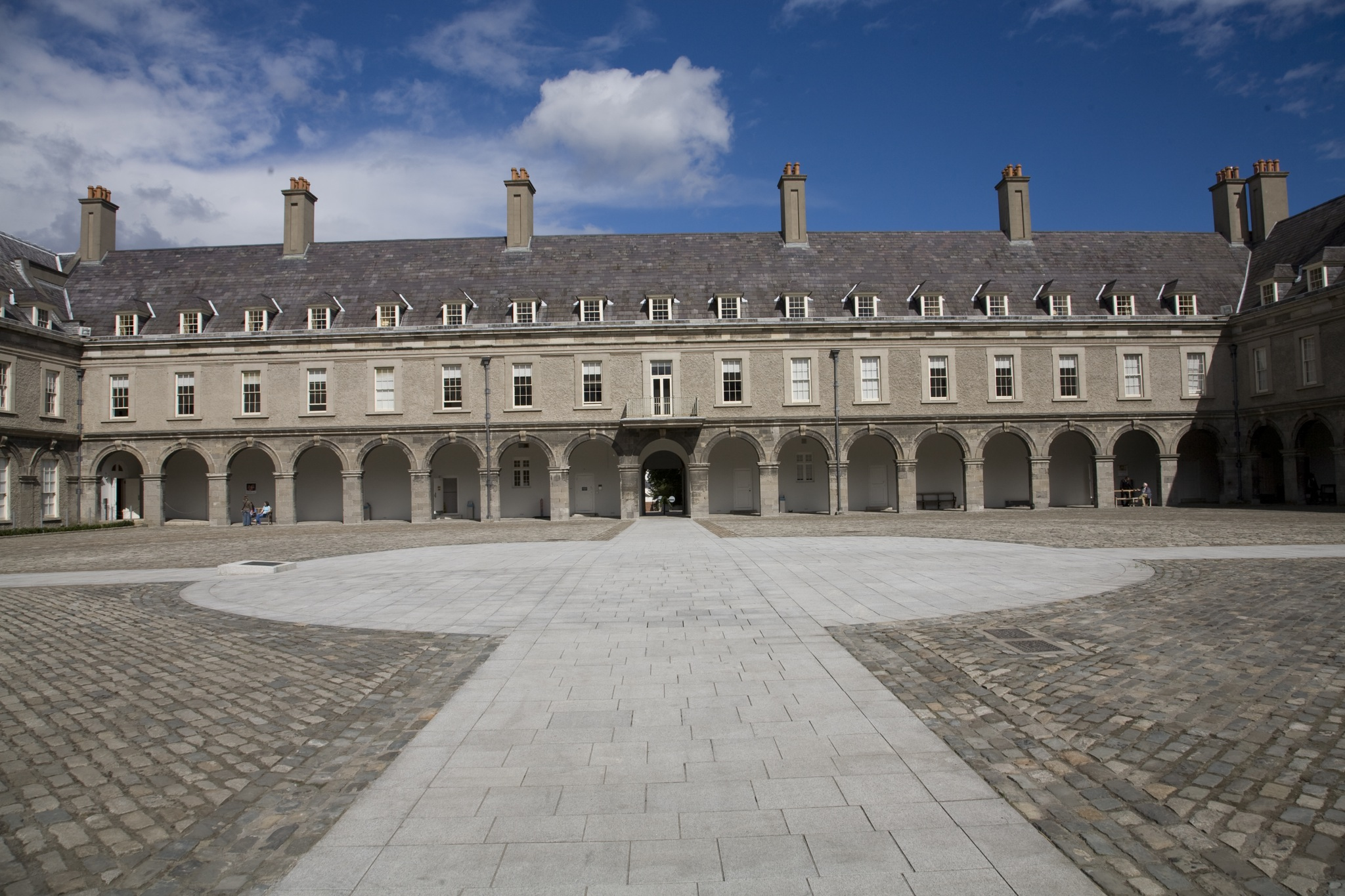 The Irish Museum of Modern Art is Ireland's leading national institution for the collection and presentation of modern and contemporary art. The Museum presents a wide variety of art and artists' ideas in a dynamic programme of exhibitions, which regularly includes bodies of work from the Museum's own Collection, its award-winning Education and Community Department and the Studio and National programmes. The work of younger artists to create a debate about the nature and function of art and its relationship with the public. The Museum is housed in the magnificently restored Royal Hospital building and grounds, which include a formal garden, meadow and medieval burial grounds as well as other historical buildings. The Irish Museum of Modern Art [?]